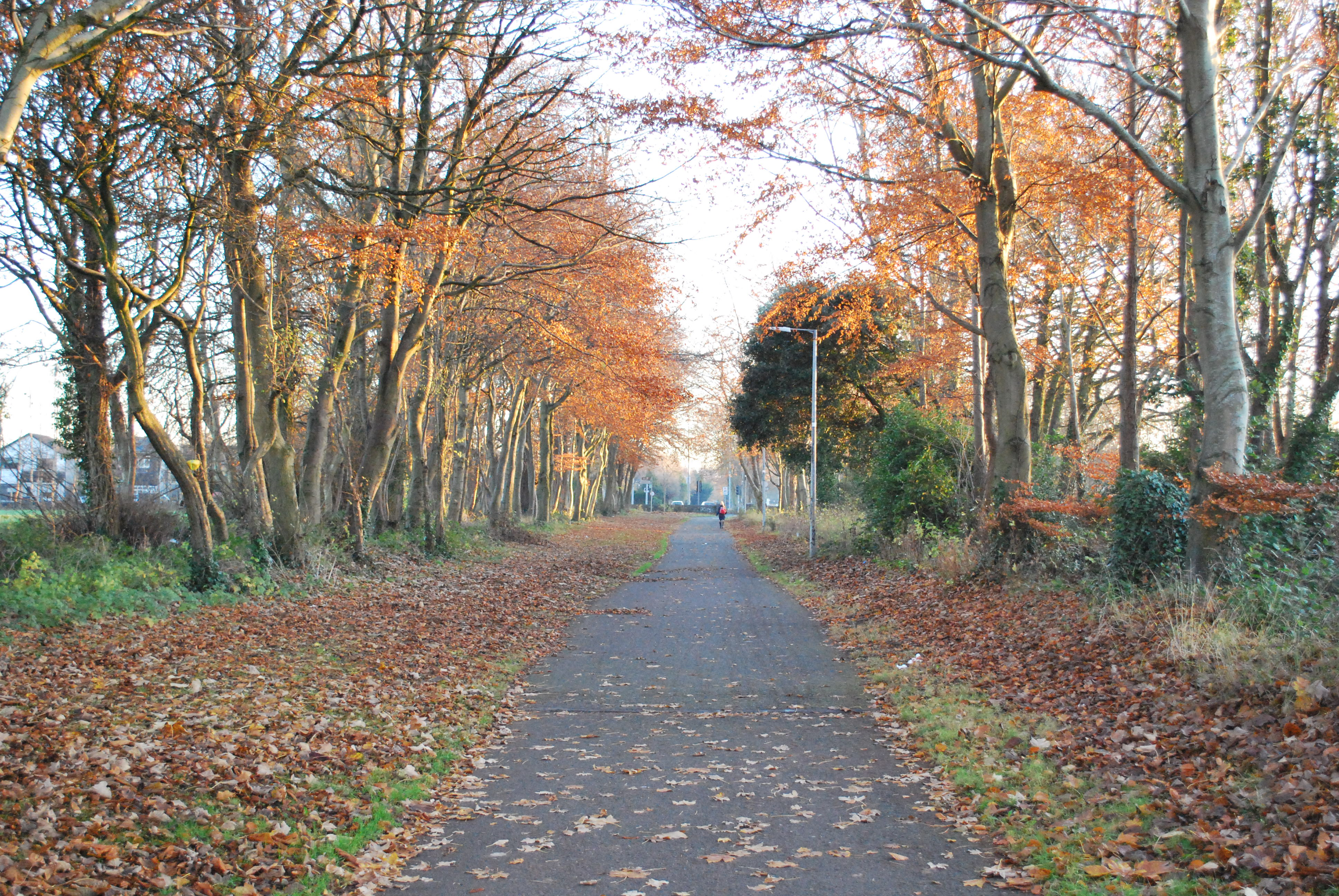 View of woods from half way facing towards the Coolmine train station